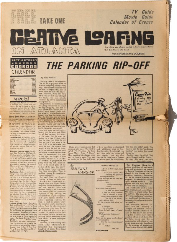 This front page is one of the earliest images of the start of Creative Loafing. Courtesy of Debby Eason herself.